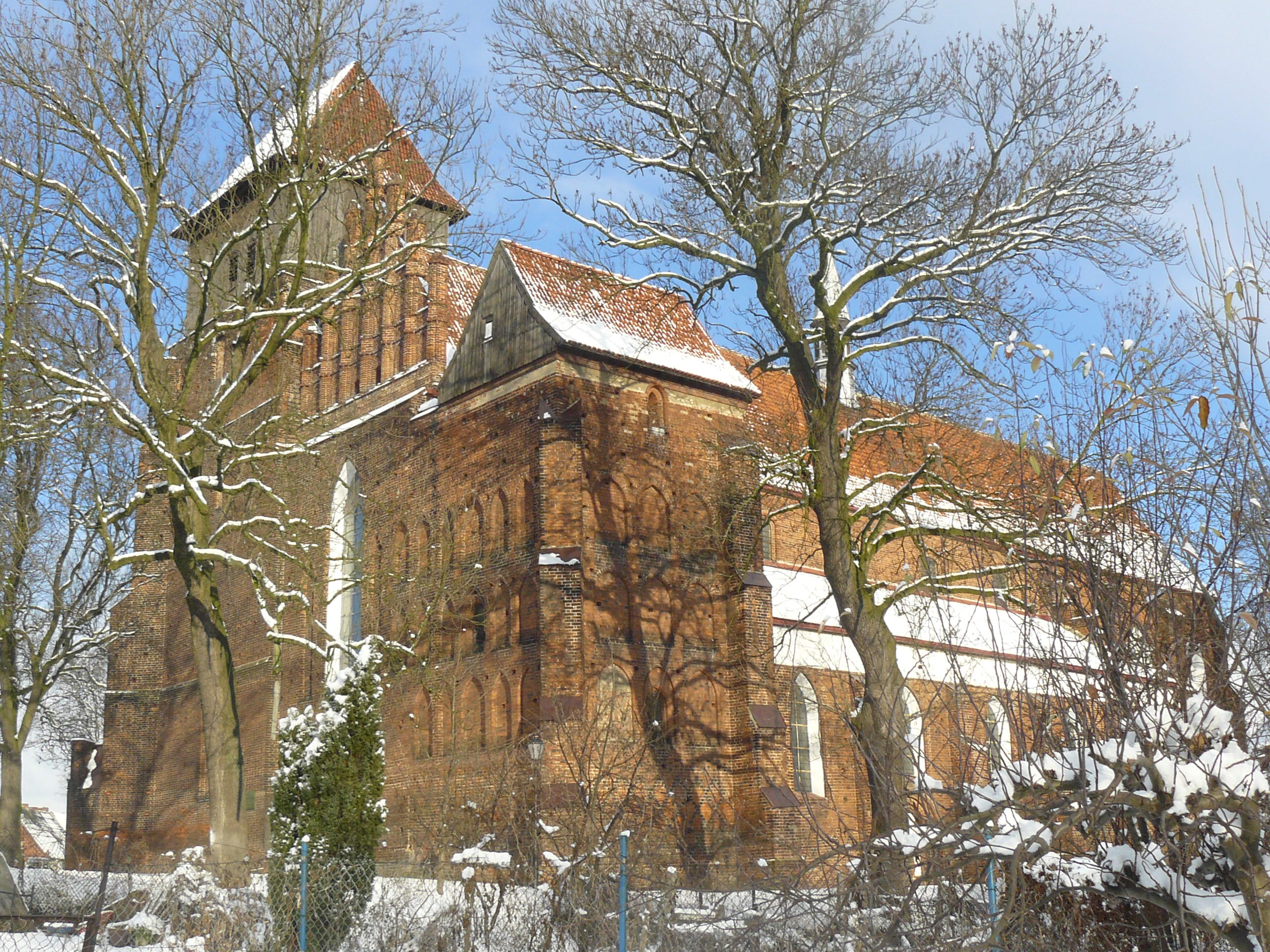 Roman-catholic church in Nowy Staw